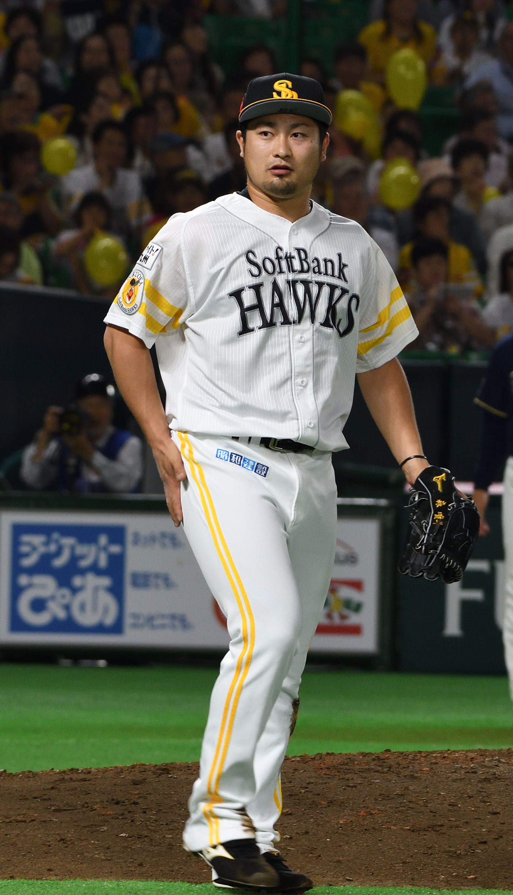 Yuito Mori, pitcher of the Fukuoka SoftBank Hawks, at Fukuoka Dome.